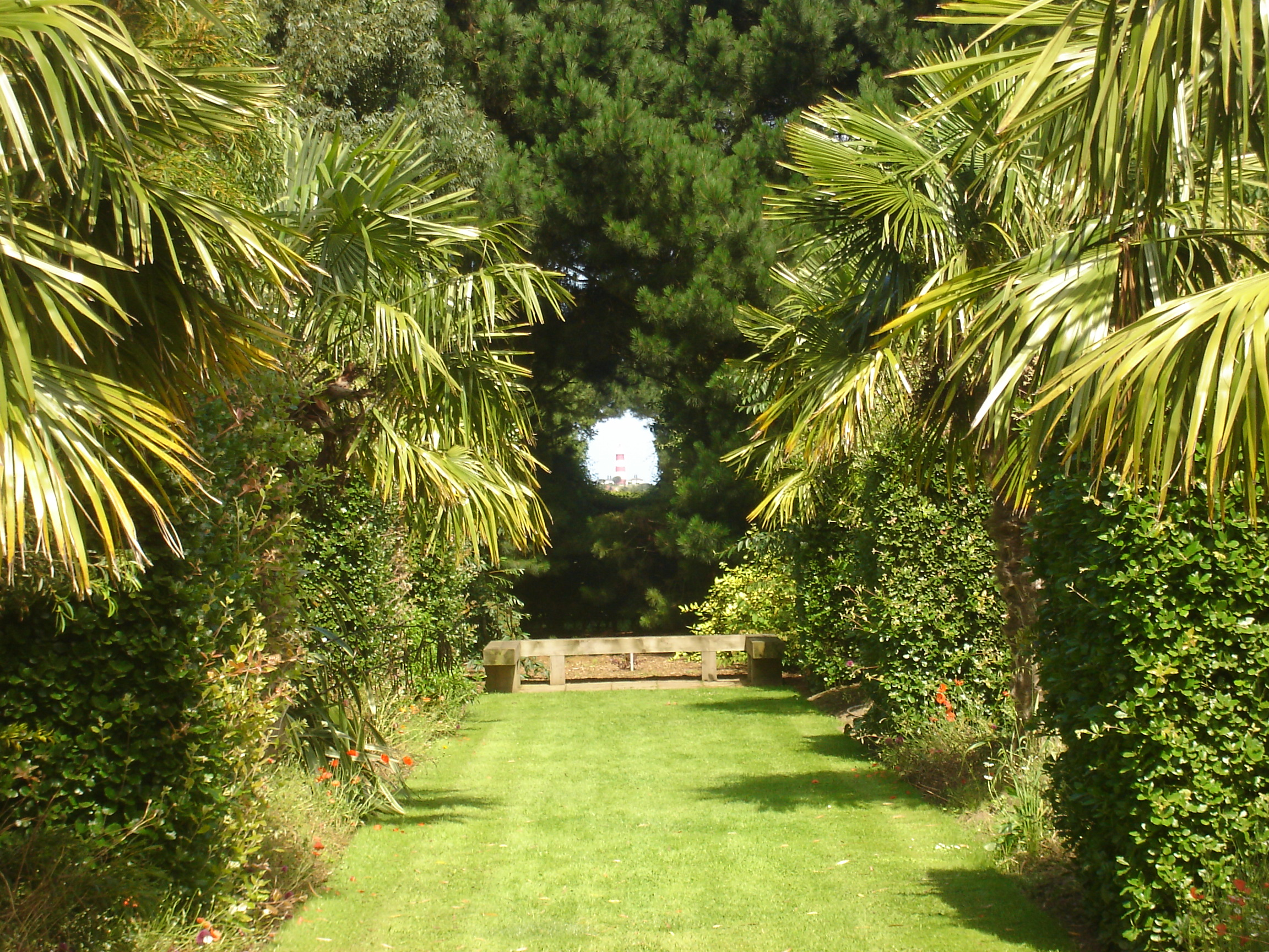 Picture taken at East Ruston Old Vicarage Gardens, Norfolk